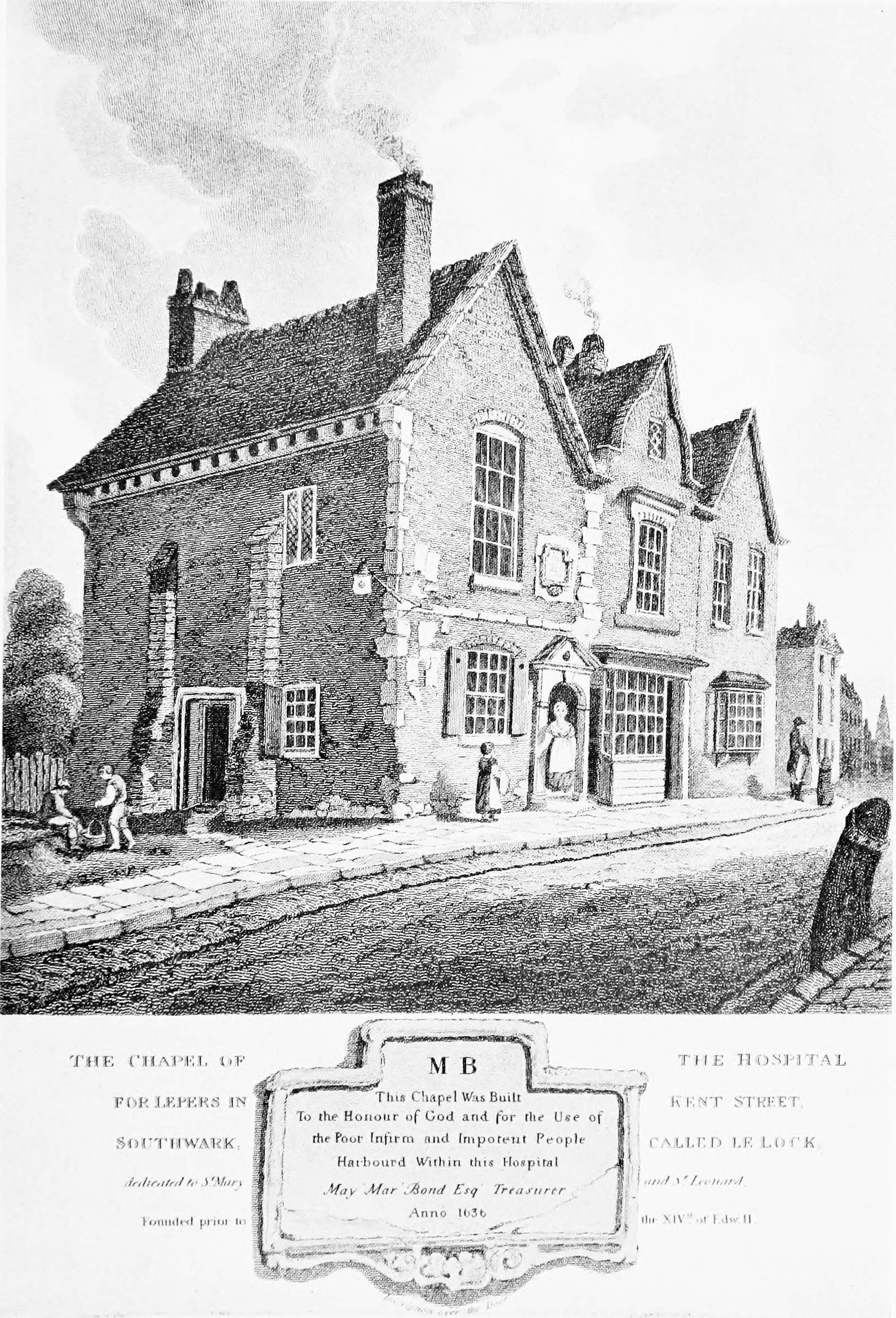 Chapel of the Hospital for Lepers in Kent Street, Southwark, called Le Lock. Illustration from Medieval London by Sir Walter Besant, published in 1906. More info here.